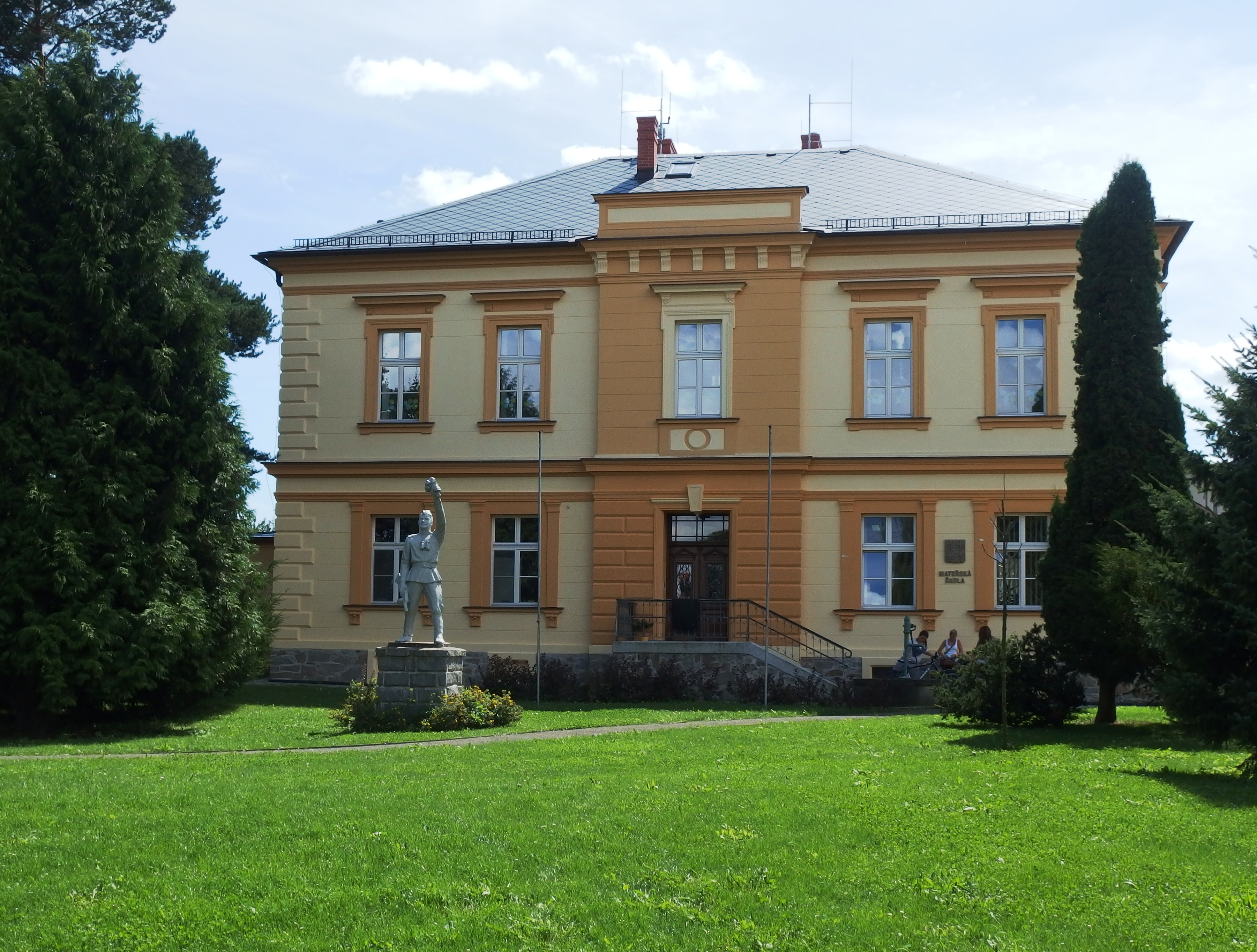 Holasovice, Opava District, Czech Republic, part Loděnice.